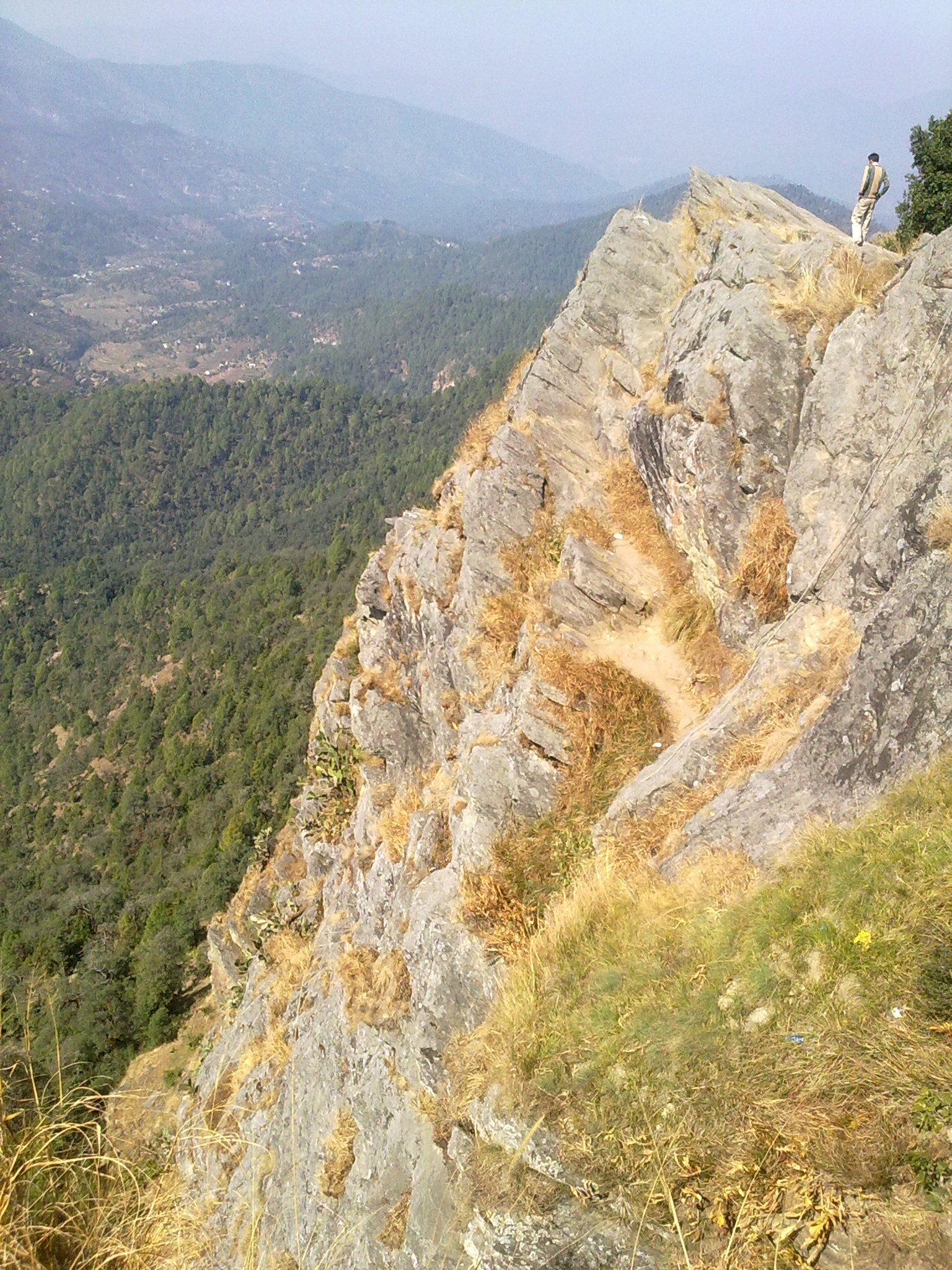 Situated amidst the beauty of Uttrakhand